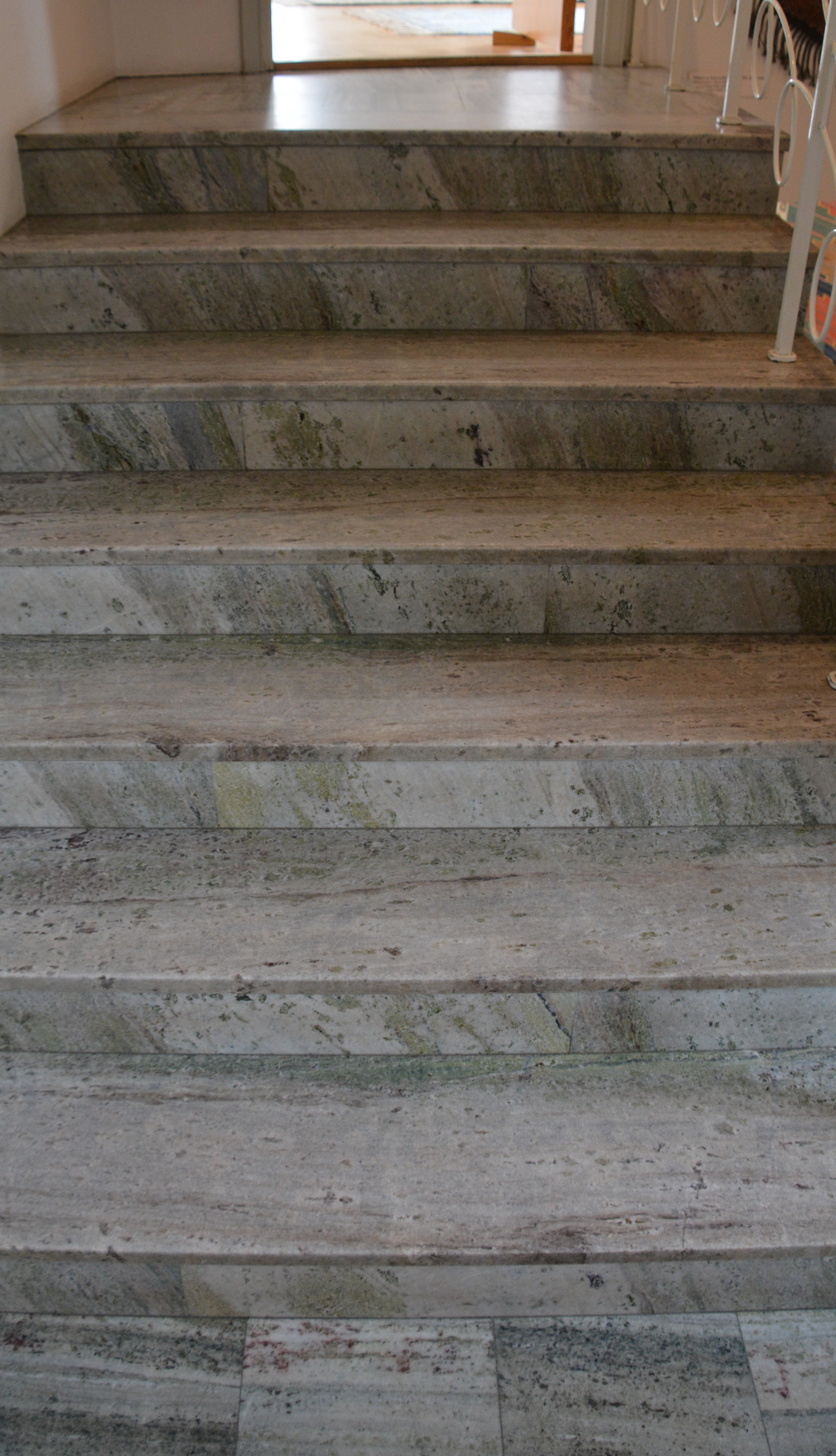 Trappa i gropptorpsmarmor, murad 1947 Staircase of Swedish Gropptorp marble, from 1947